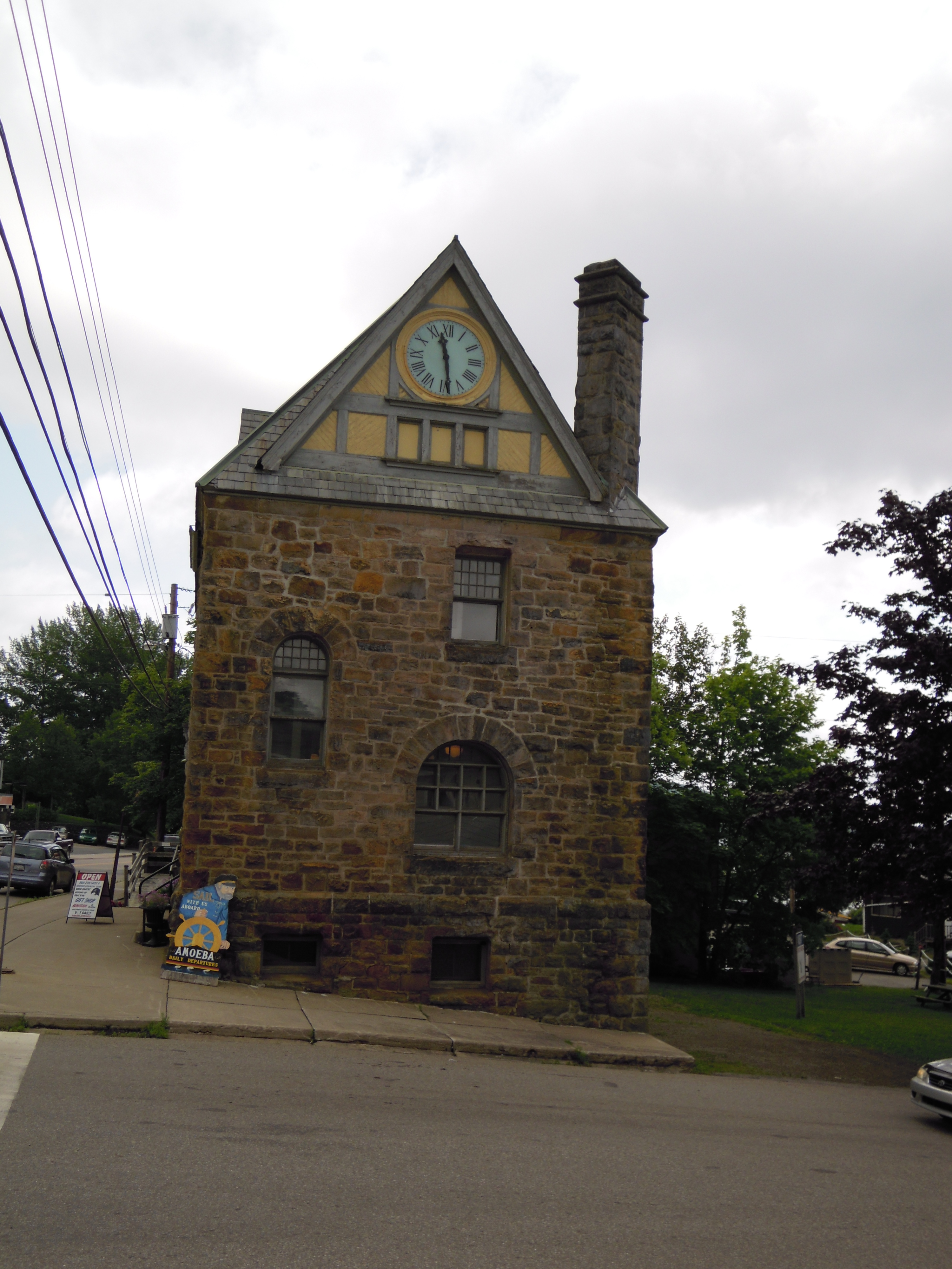 The former Post Office and Customs House (1887), designed by Thomas Fuller, in Baddeck, Cape Breton, Nova Scotia, Canada. Now serving as the premises of the Bras d'Or Lakes & Watershed Interpretive Centre.